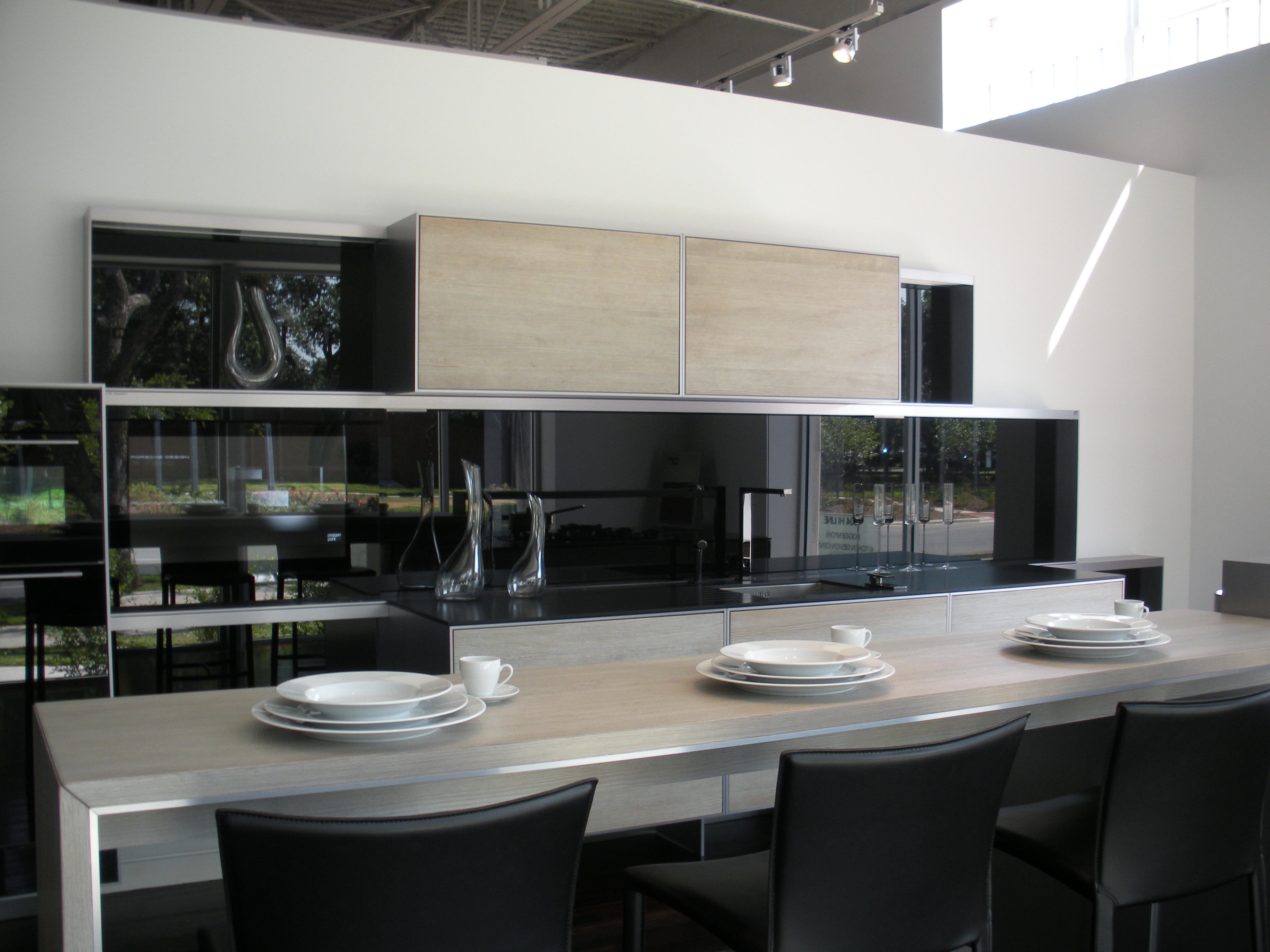 Poggenpohl kitchen & bar